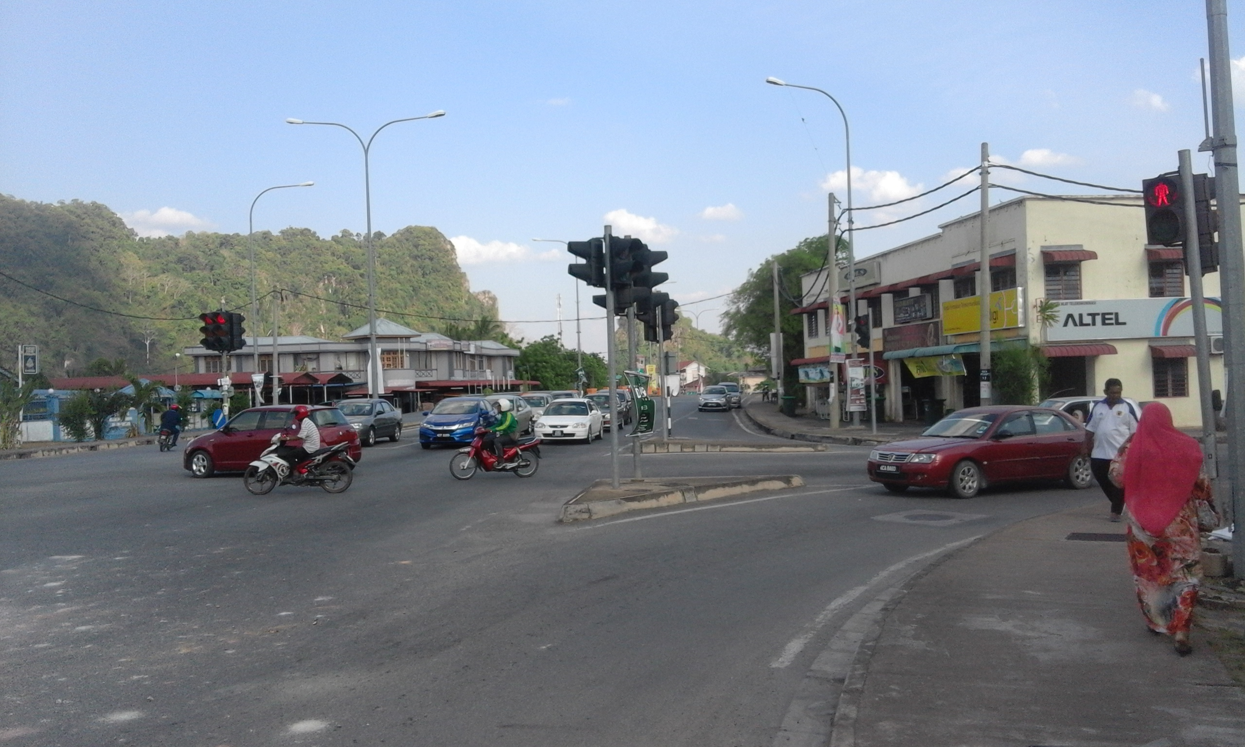 Kodiang a suburban town in Kubang Pasu District, Kedah, Malaysia